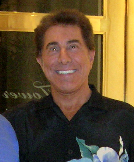 Steve Wynn, developer, taken inside the Wynn Resort Las Vegas.